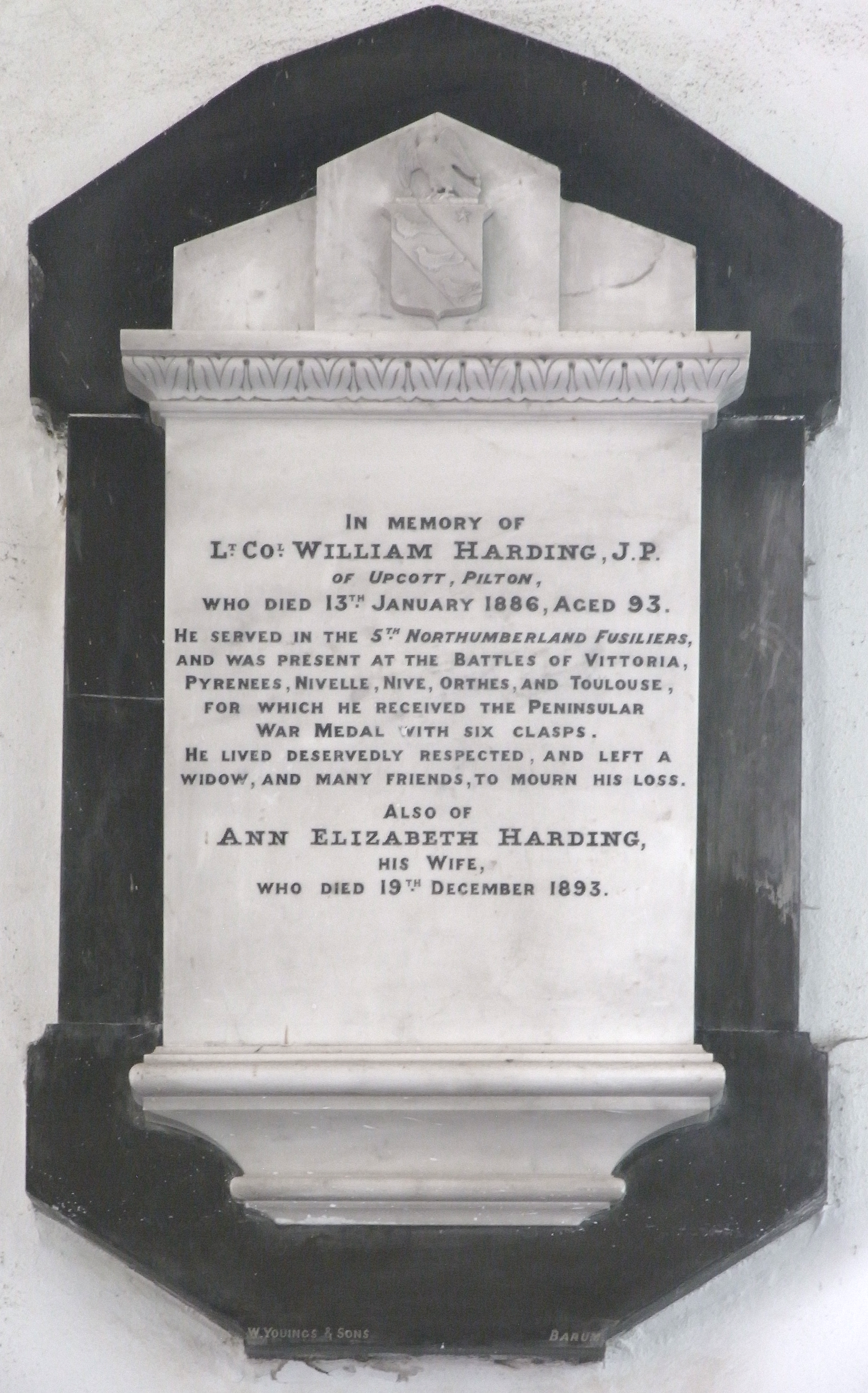 Mural monument to Lt-Col. William Harding (d.1886), Pilton Church, Devon. Inscribed as follows: "In memory of Lt Col William Harding JP of Upcott, Pilton, who died 13th January 1886 aged 93. He served in the 5th Northumberland Fusiliersa and was present at the Battles of Vittoria, Pyrenees, Nivelle, Nive, Orthes and Toulouse, for which he received the Penninsular War Medal with six clasps. He lived deservedly respected and left a widow and many friends to mourn his loss. Also of Ann Elizabeth Harding his wife who died 19th December 1893". Arms above: Or, on a bend sable three martlets of the field (Harding), a mullet for difference of a 3rd son. Crest: A falcol rising. Monument marked: W.Youings & Son, Barum